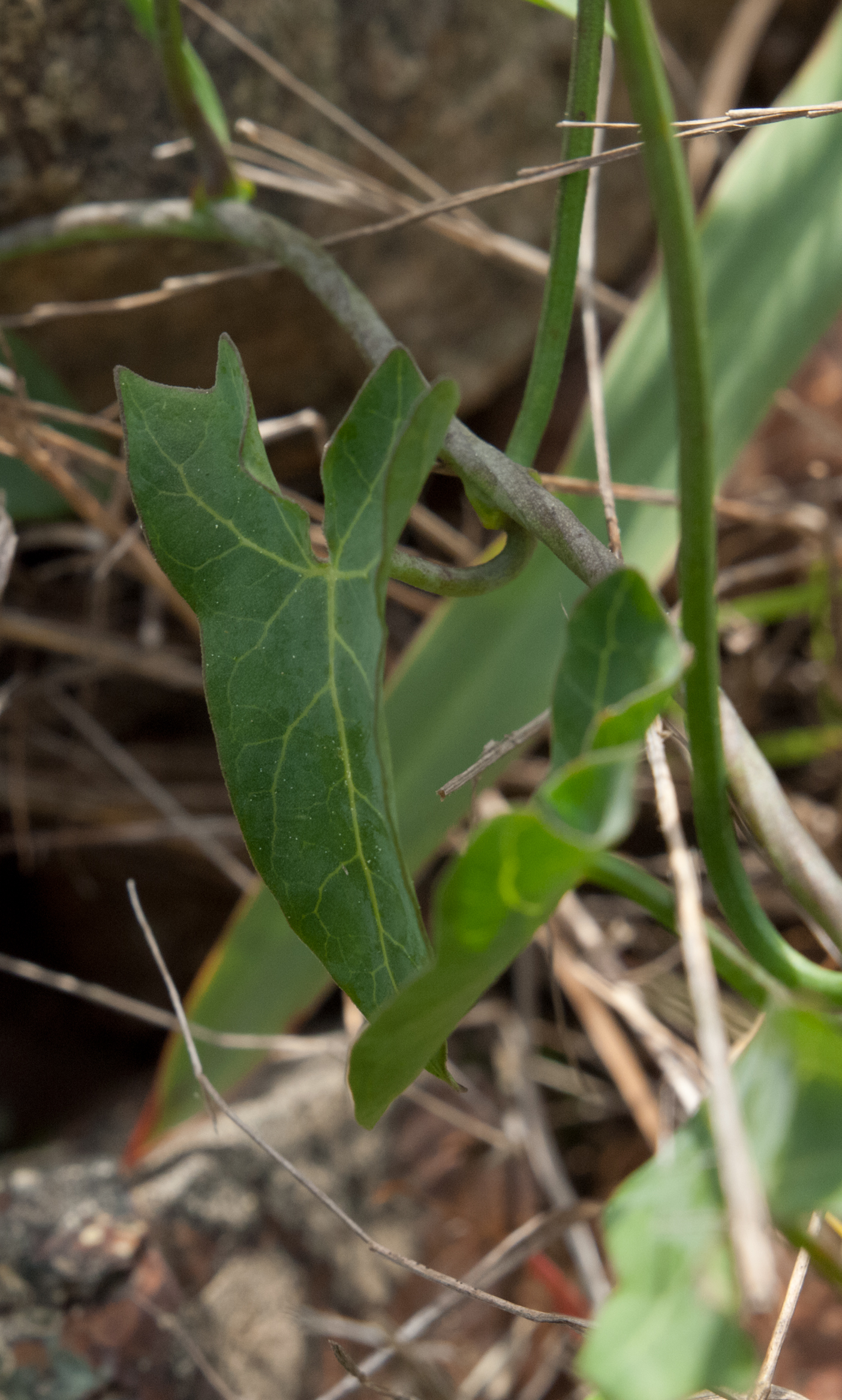 Western morning glory (Calystegia occidentalis)